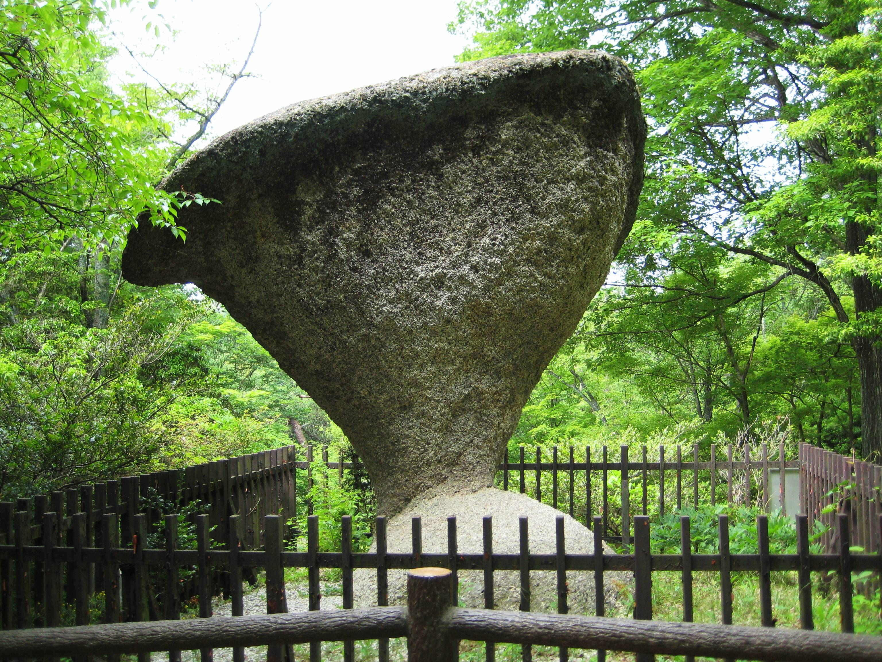 Kasaishi.